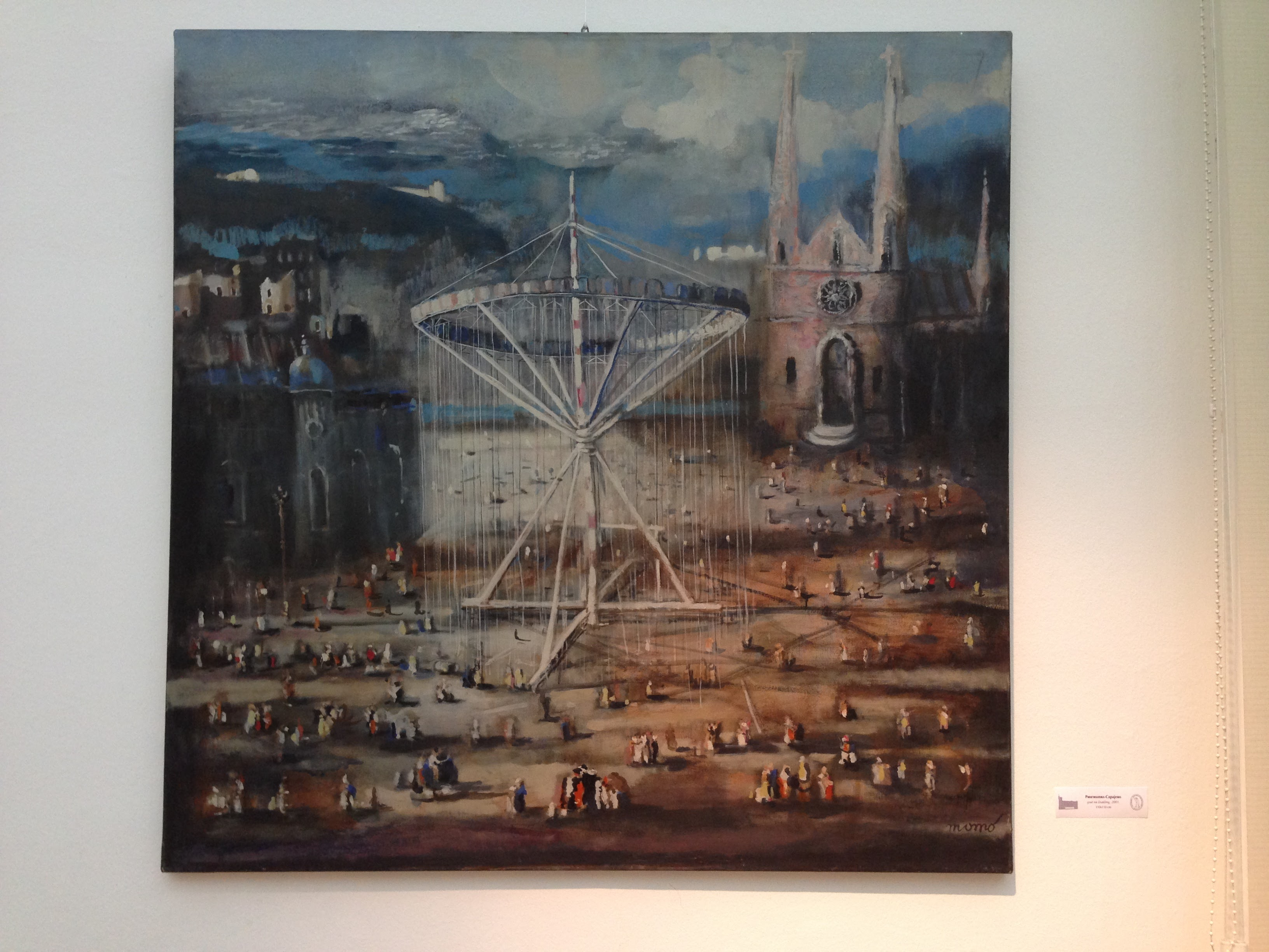 Еxhibition "Momo, par lui meme", Gallery of the Central Military Club, Belgrad, Serbia